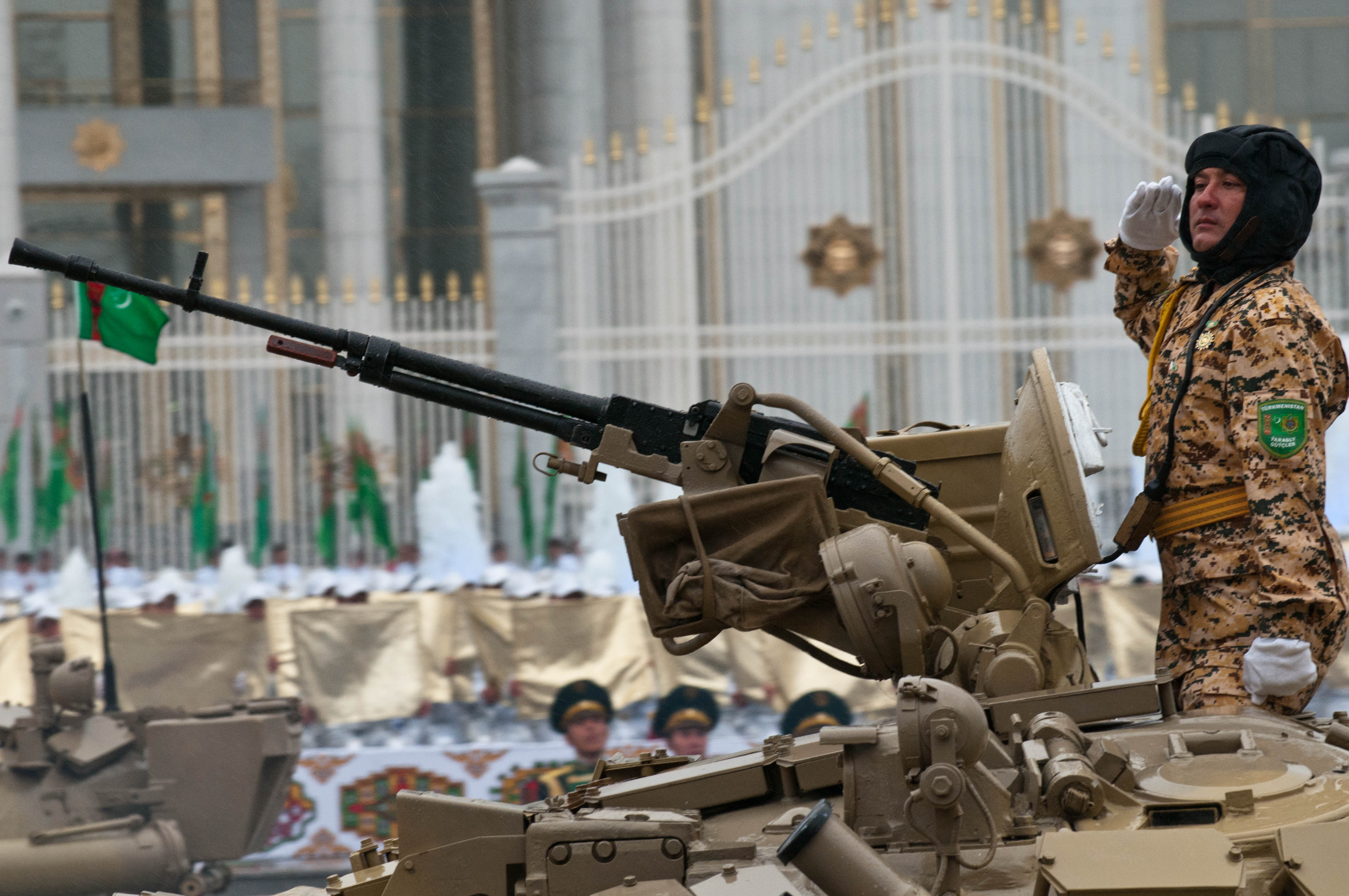 T-72UMG. Celebrating the 20th year of independence in Turkmenistan